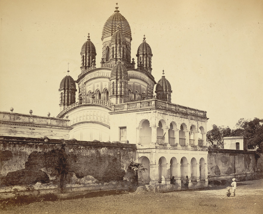 Photograph of Dakshineshwar temple from 'Views of Calcutta and Barrackpore' was taken by Samuel Bourne in the 1860s. The temple was built by Rani Rashmoni in 1855 and is dedicated to the goddess Kali. Within the temple complex there are twelve smaller temples devoted to Shiva.